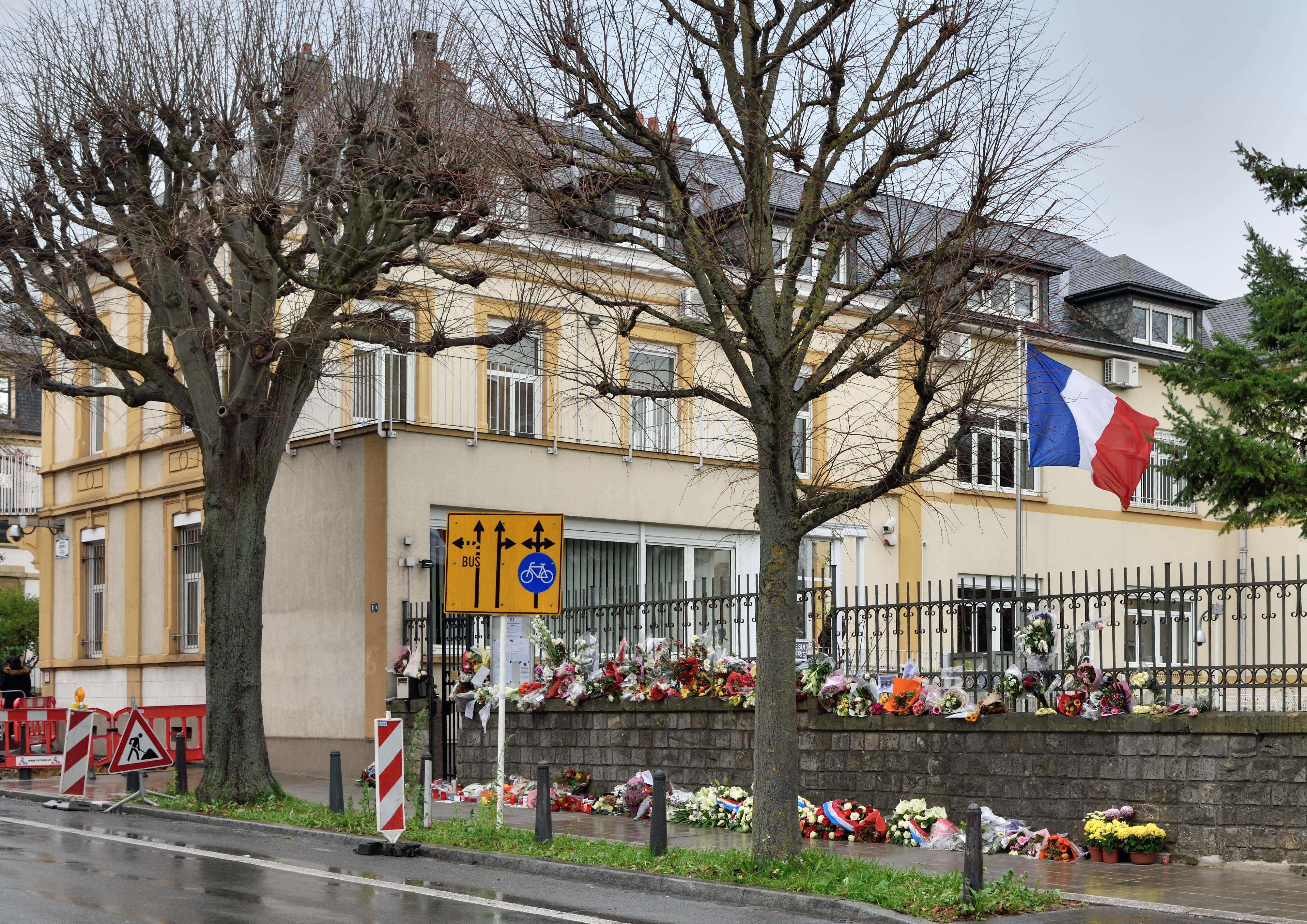 Je suis Paris. Messages of condolence and solidarity at the French embassy, boulevard Joseph-II, in Luxembourg City after the November 2015 Paris attacks.